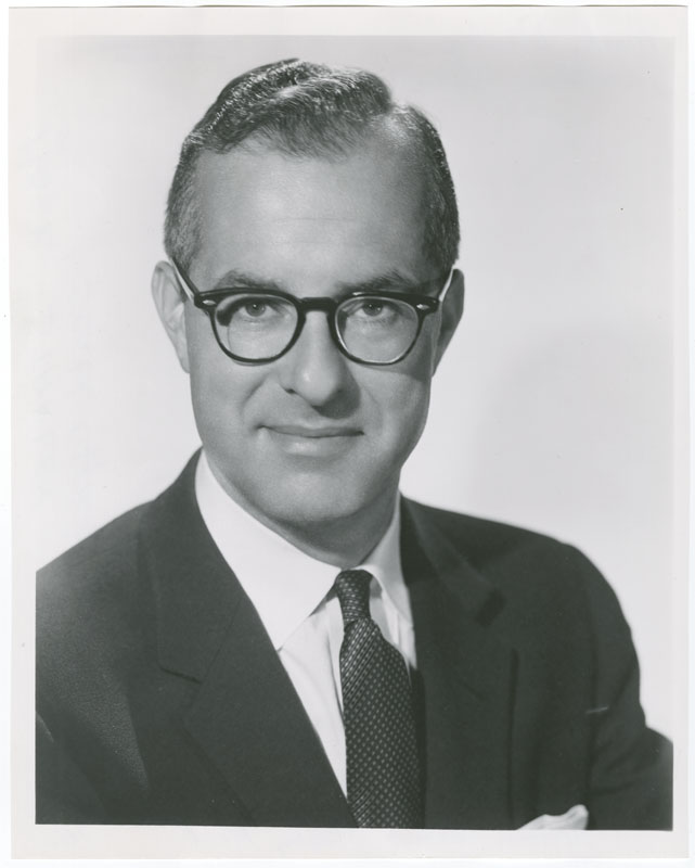 Stanley Mosk, Associate Justice of the California Supreme Court, 1964-2001